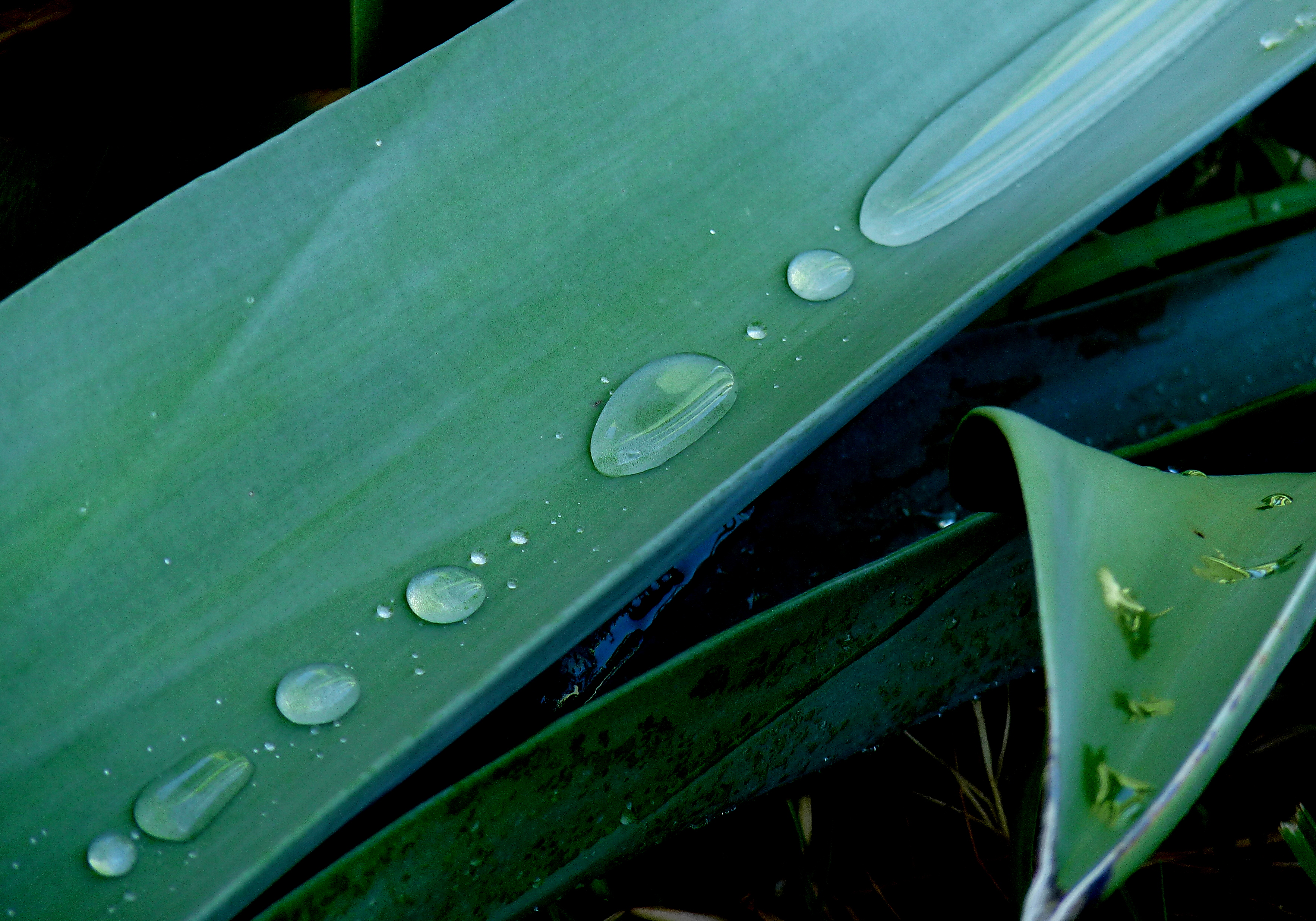 The image represents a closeup of an agava leaf with water on it.